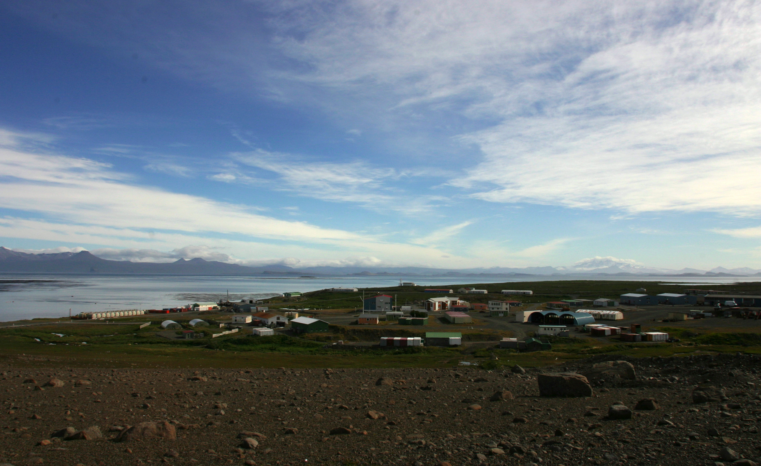 Port-aux-Français - French Station located in the Kerguelen Archipelago. Back : Golfe du Morbihan.